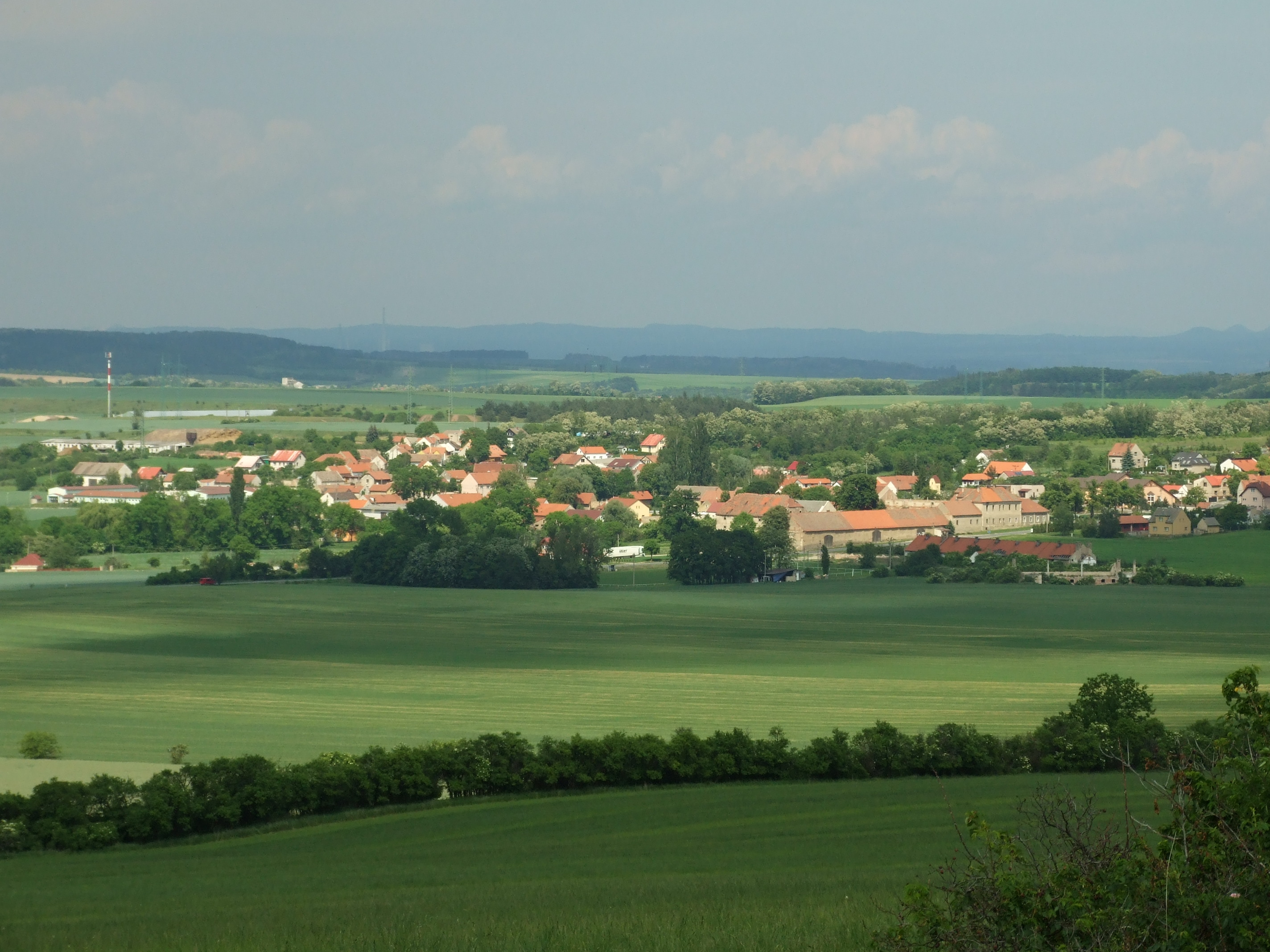 Town of Uhy and its surrounding nature in Central Bohemian region, CZhelp